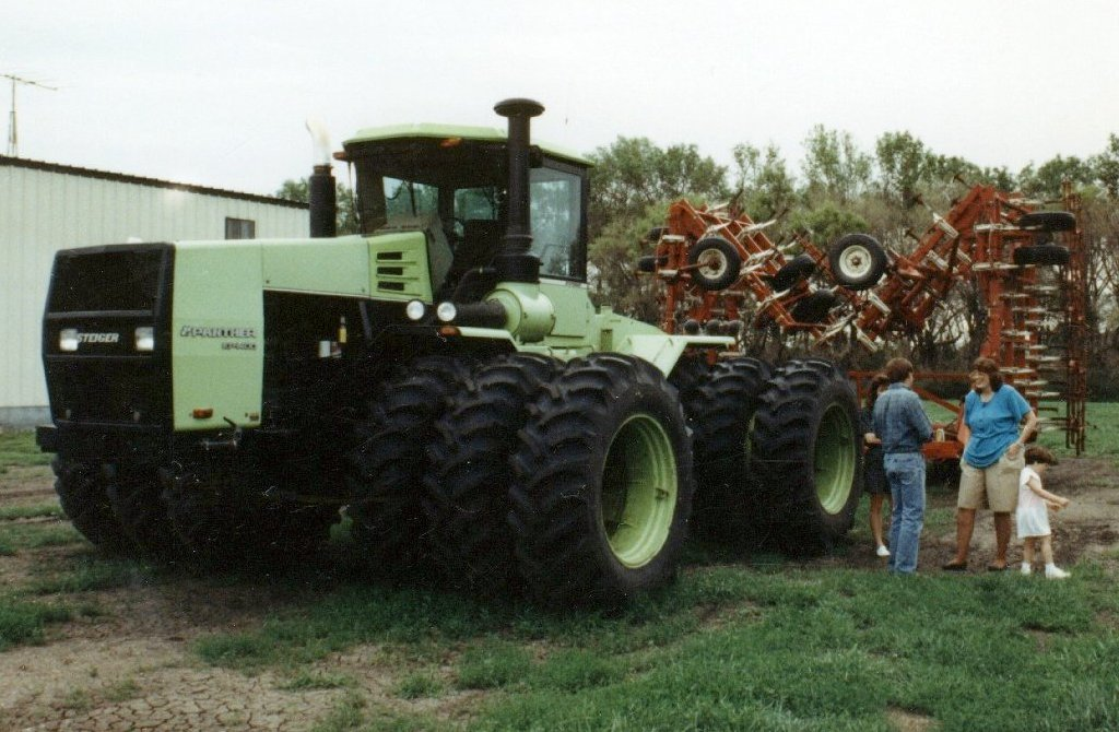 Steiger Panther with 12 tires. The seeding (tillage) rig on the back spread out to over 120 feet wide. This picture was taken in 1990 with a Nikon N200 SLR; Midwest, USA.